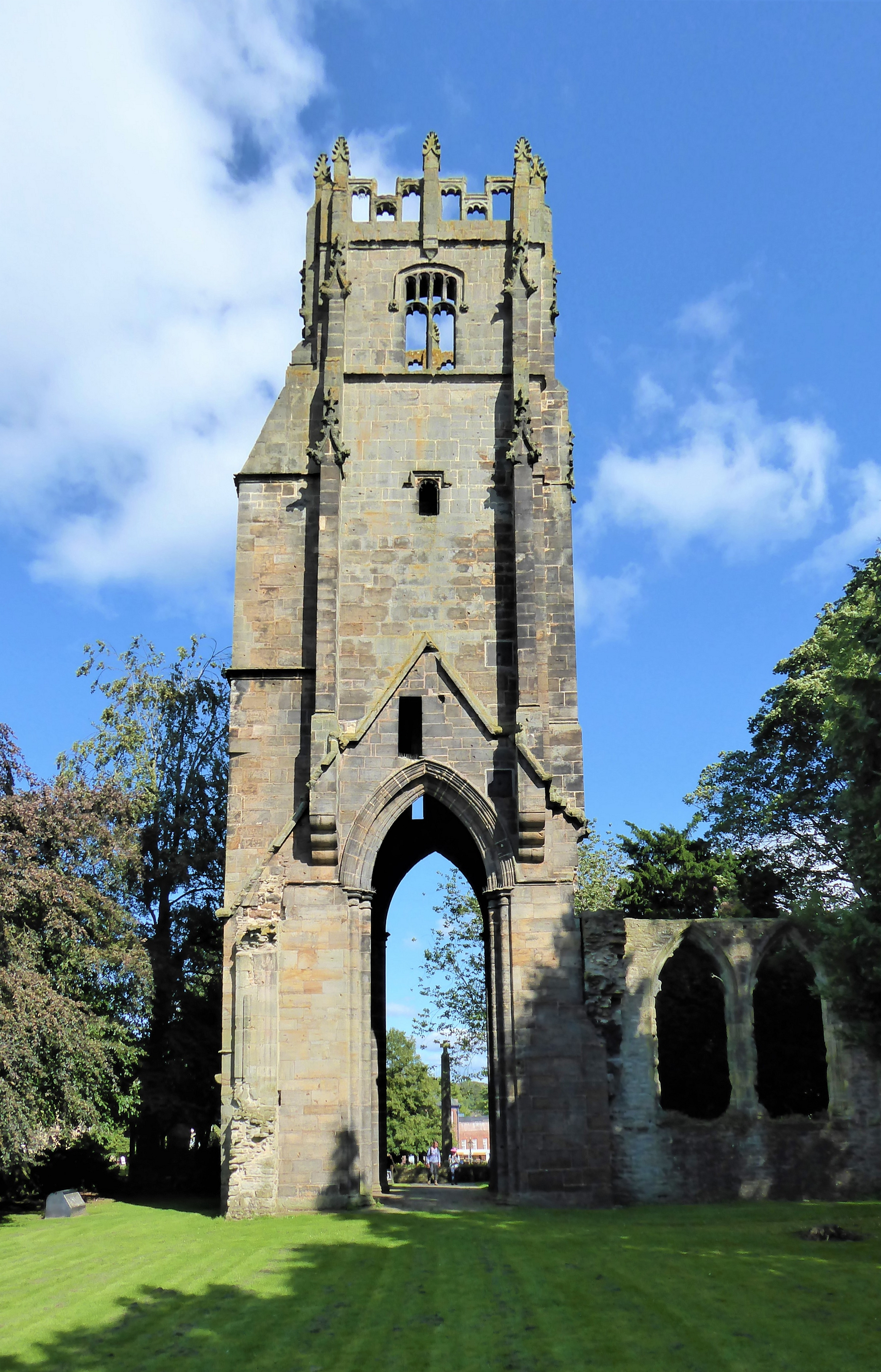 Grey Friars Tower, Richmond